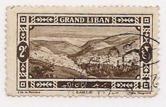 Francobollo Grand Liban